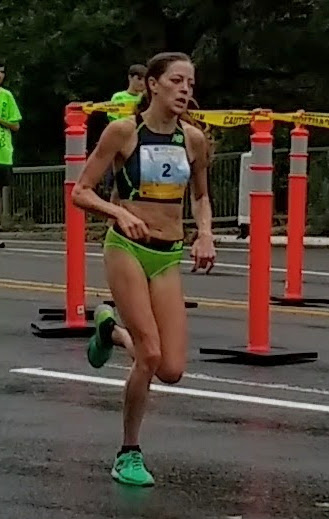 Natosha Rogers running the Tufts Health Plan 10K for Women in Cambridge in 2017.